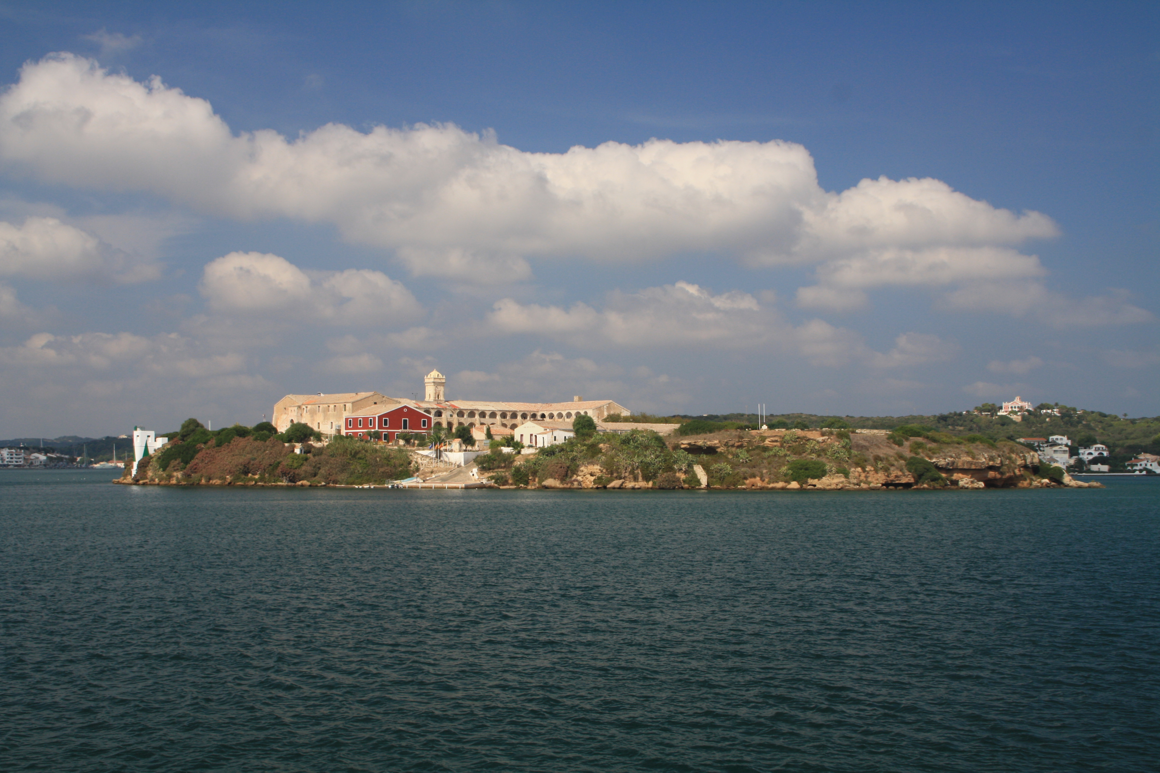 Illa del Rei, Port of Mahón